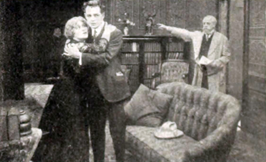 Illustration of an article in The Moving Picture World